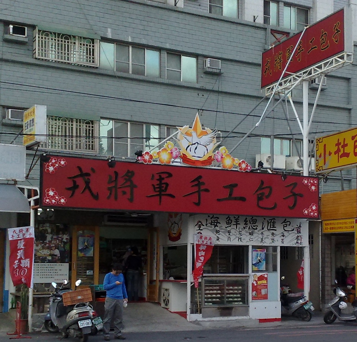 General Rong Baozi Hengchun Store